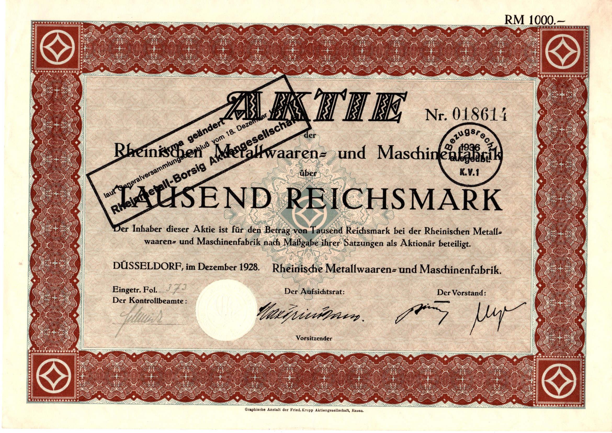 Share of the Rheinische Metallwaaren- und Maschinenfabrik, issued December 1928